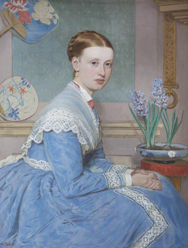 Emily Langton Langton, née Emily Caroline Langton Massingberd 1847-1897 of Gunby Hall,spouse of her second-cousin, Edmund Langton.by John Collingham Moore (1829–1880)